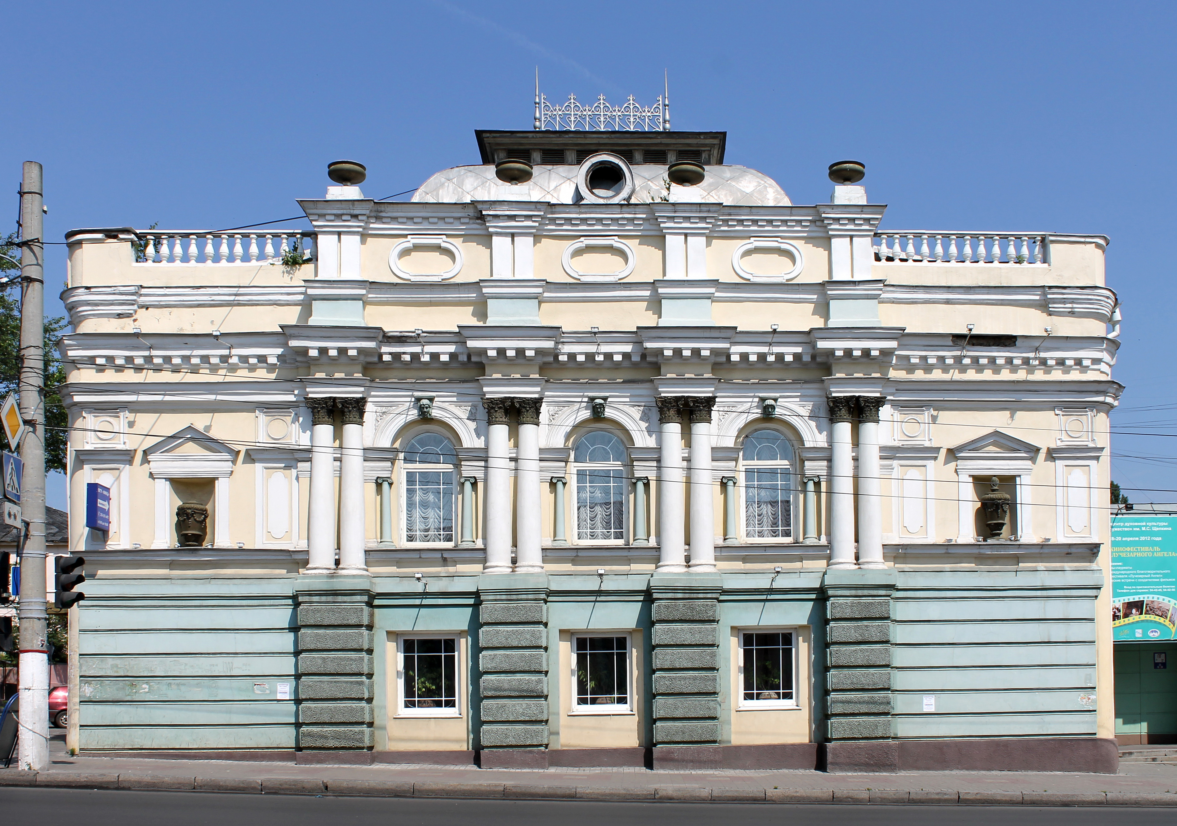 Cinema Shchepkin (Kursk)